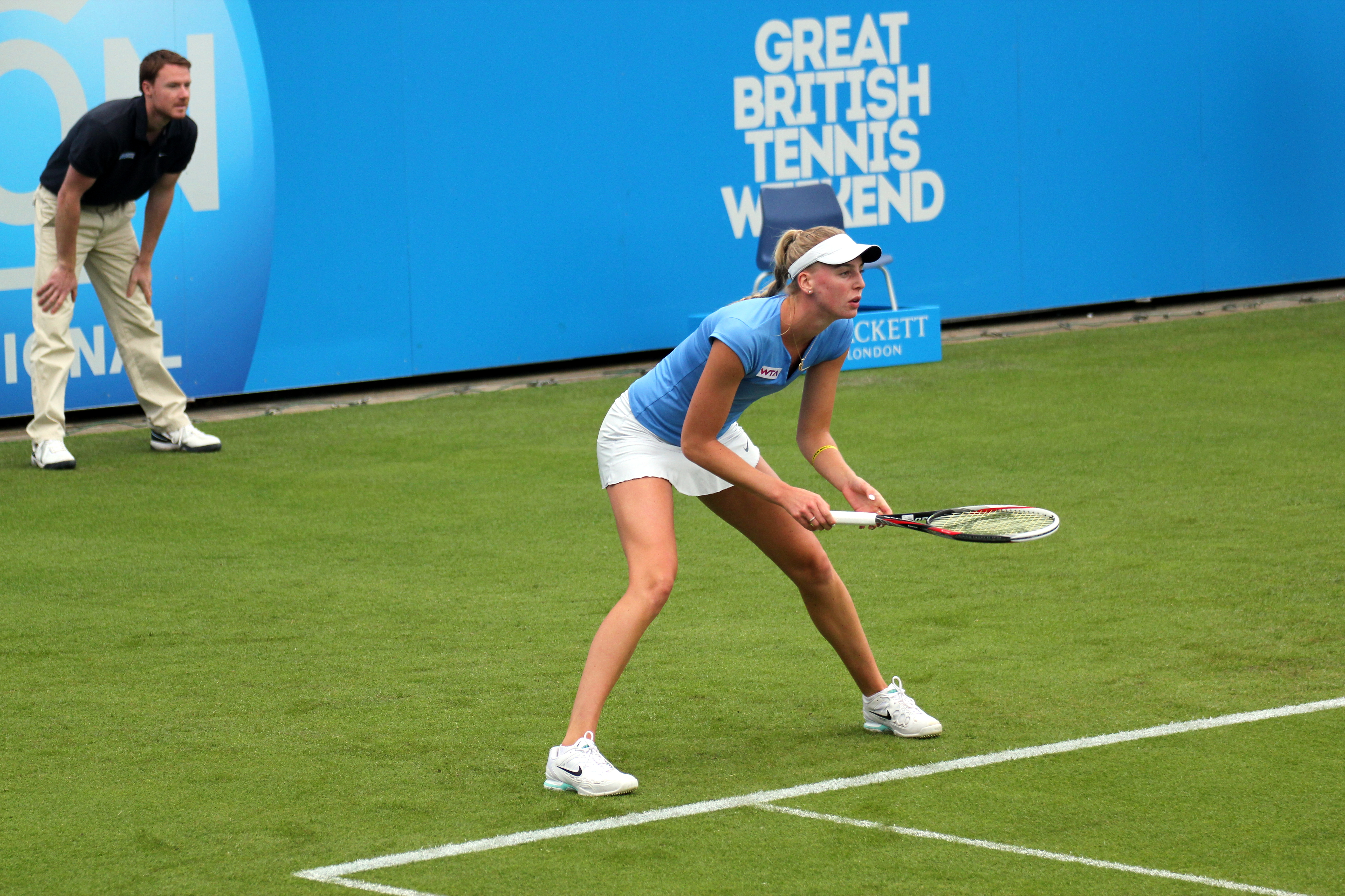 035 Naomi Broady of Great Britain